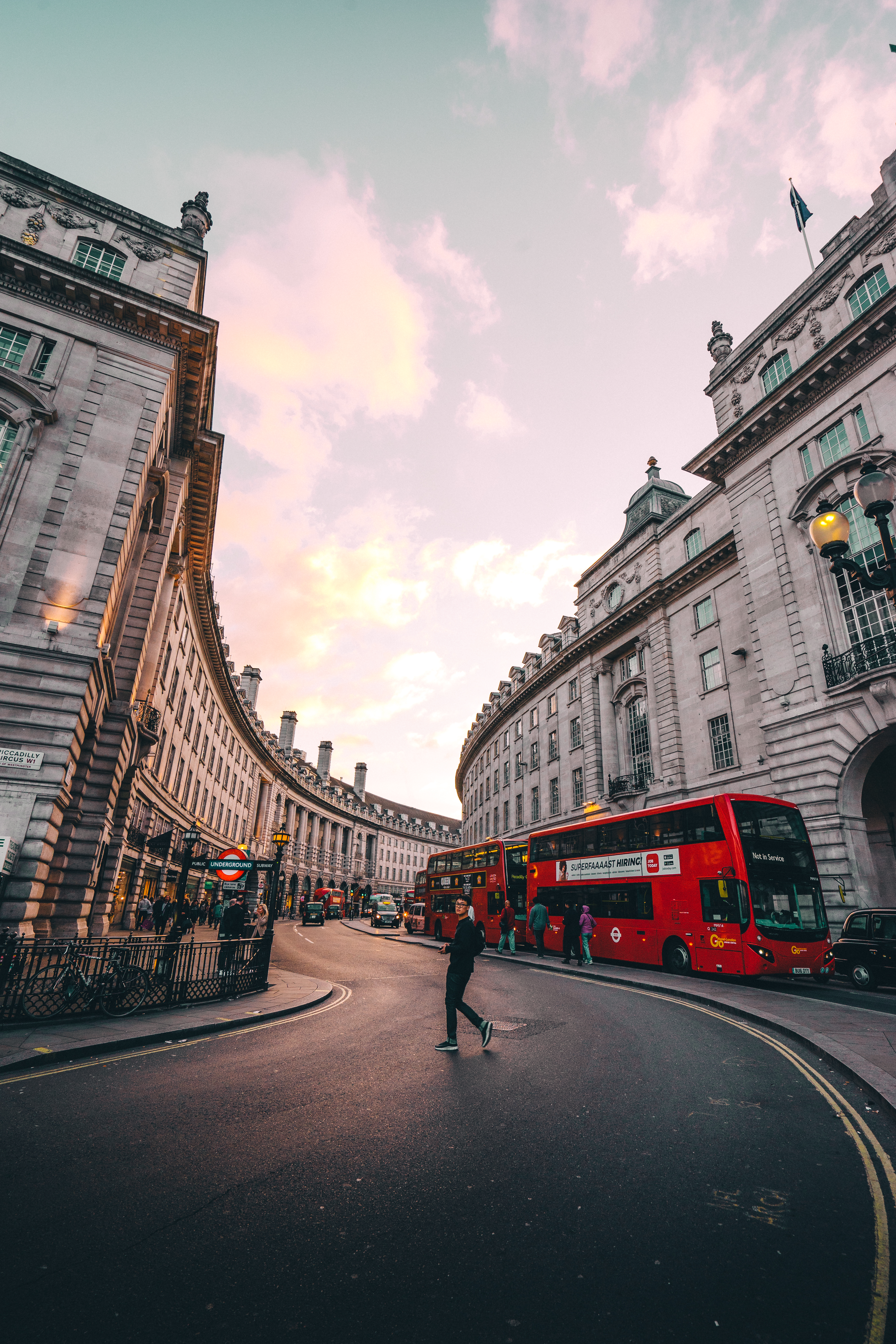 Regent Street, London.